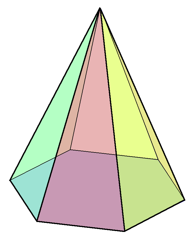 Hexagonal_pyramid transparent image